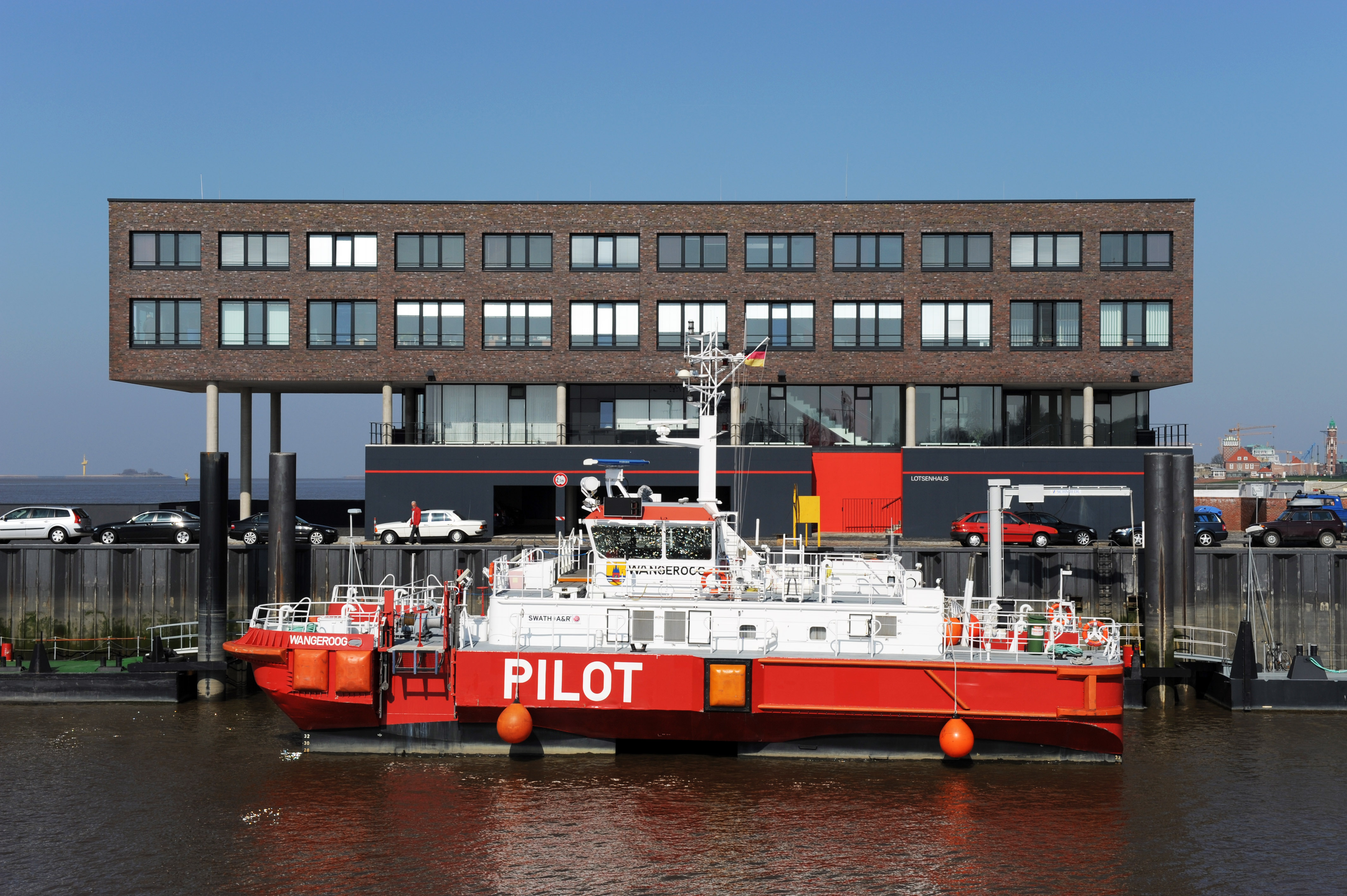 House of pilots, pilot boat WANGEROOG; Bremerhaven